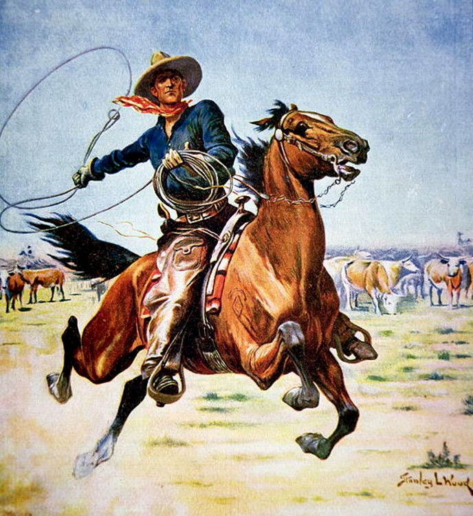 Texas cowboy by Stanley L. Wood (1866-1928), English illustrator